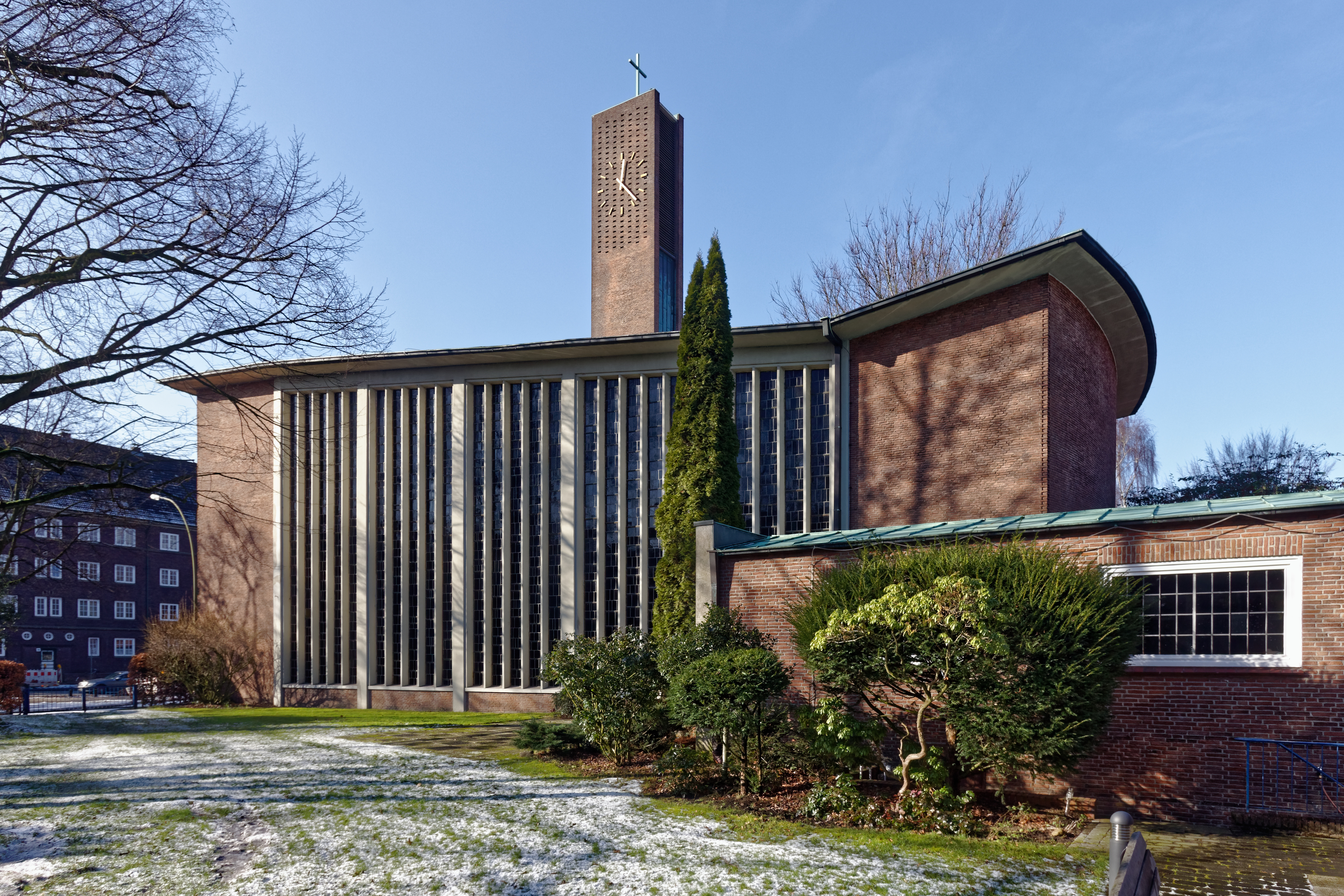 Paul-Gerhardt-Church in Hamburg-Winterhhude, view from the south